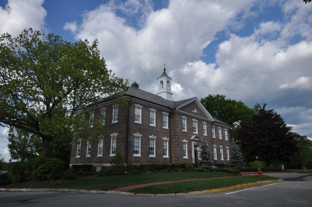 One of a number of similar buildings at Devens, Massachusetts, formerly Fort Devens; part of the Fort Devens Historic District.